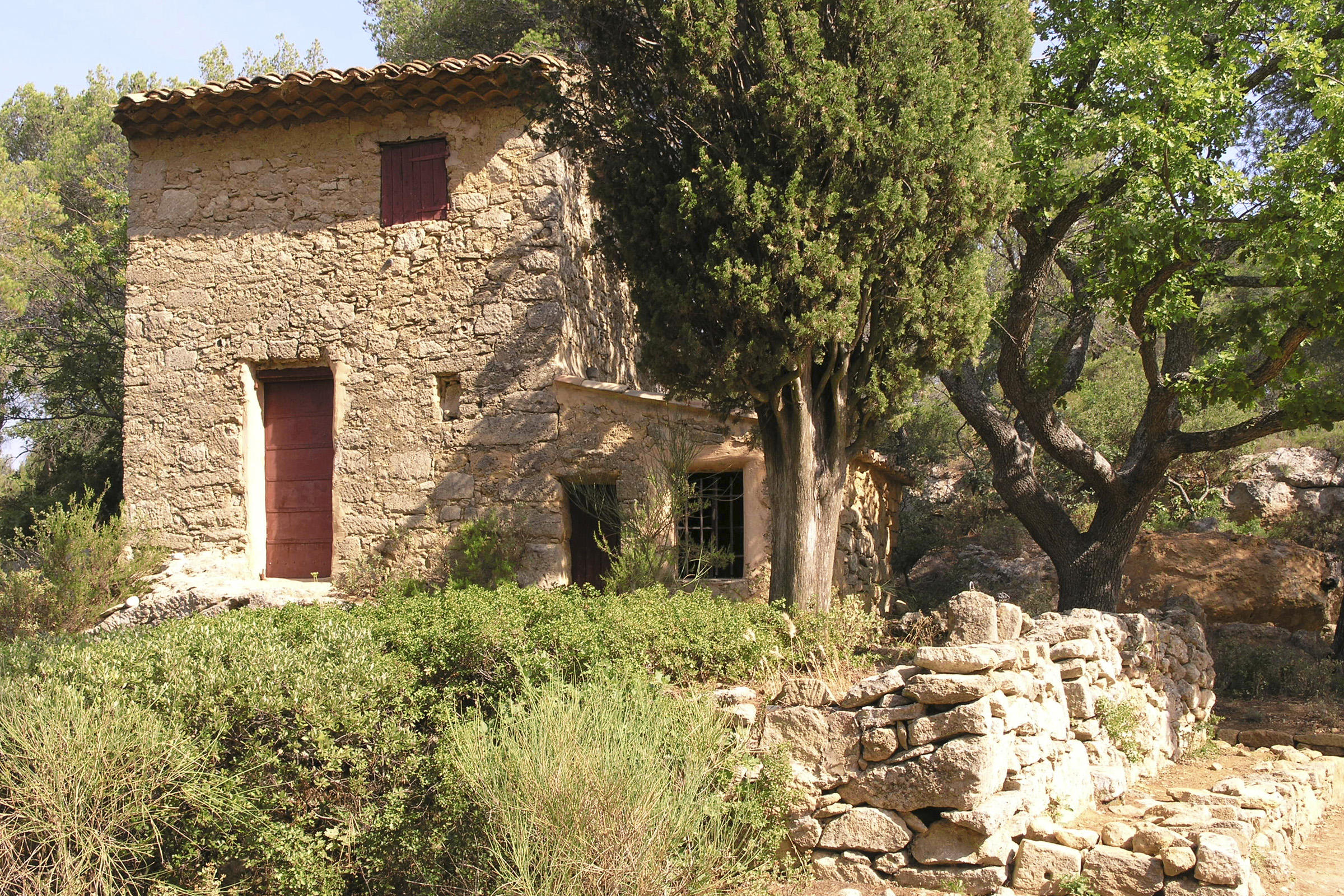 Cézanne's house in the Bibémus quarries, Aix-en-Provence, France. The Bibémus quarries were a frequent theme in his paintings.